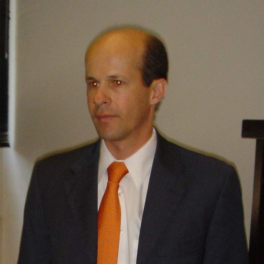 Ricardo Annes Guimarães, former president of Clube Atlético Mineiro and Banco BMG.